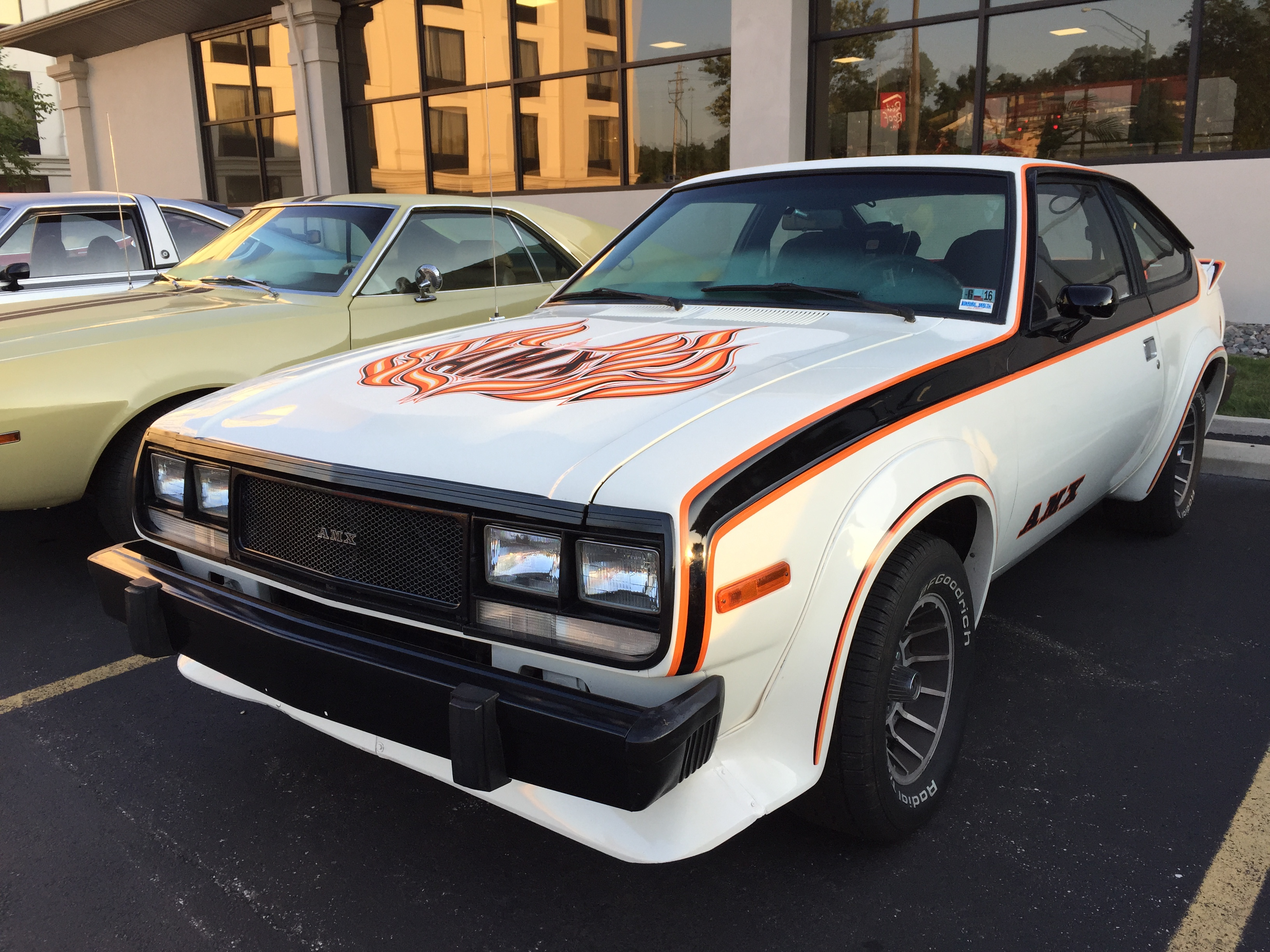 1979 AMC AMX, a sports compact built by American Motors. This car has AMC's V8 and the standard 4-speed manual transmission. Finished in Olympic White (code 9B) with AMX's standard bodyside trim and the optional hood decal. This is the one production year for the "AMX" version with the 304 cu in (5.0 L) V8 using the AMC Spirit platform. Photograph taken during the American Motors Owners Association (AMO) annual convention that was held July 2015 near Cleveland, Ohio.